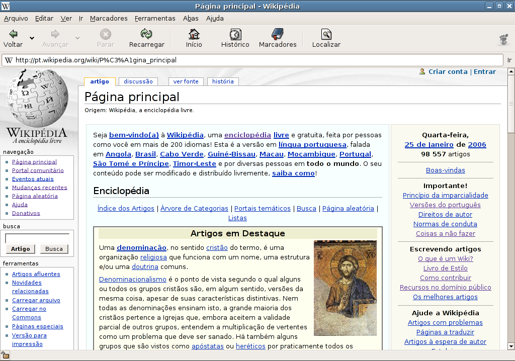 Epiphany 1.8.3 (webbrowser from GNOME foundation) showing pt.wikipedia By myself